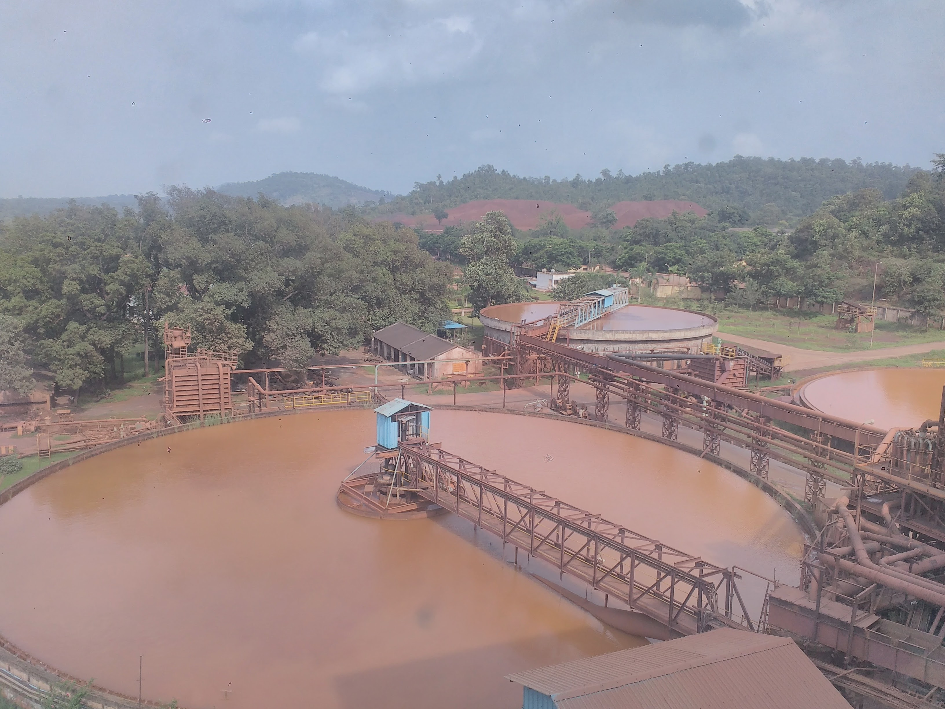 plant